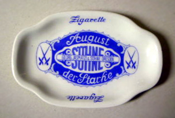 Ashtray by Georg Jasmatzi & Sons. Cigarette August der Starke